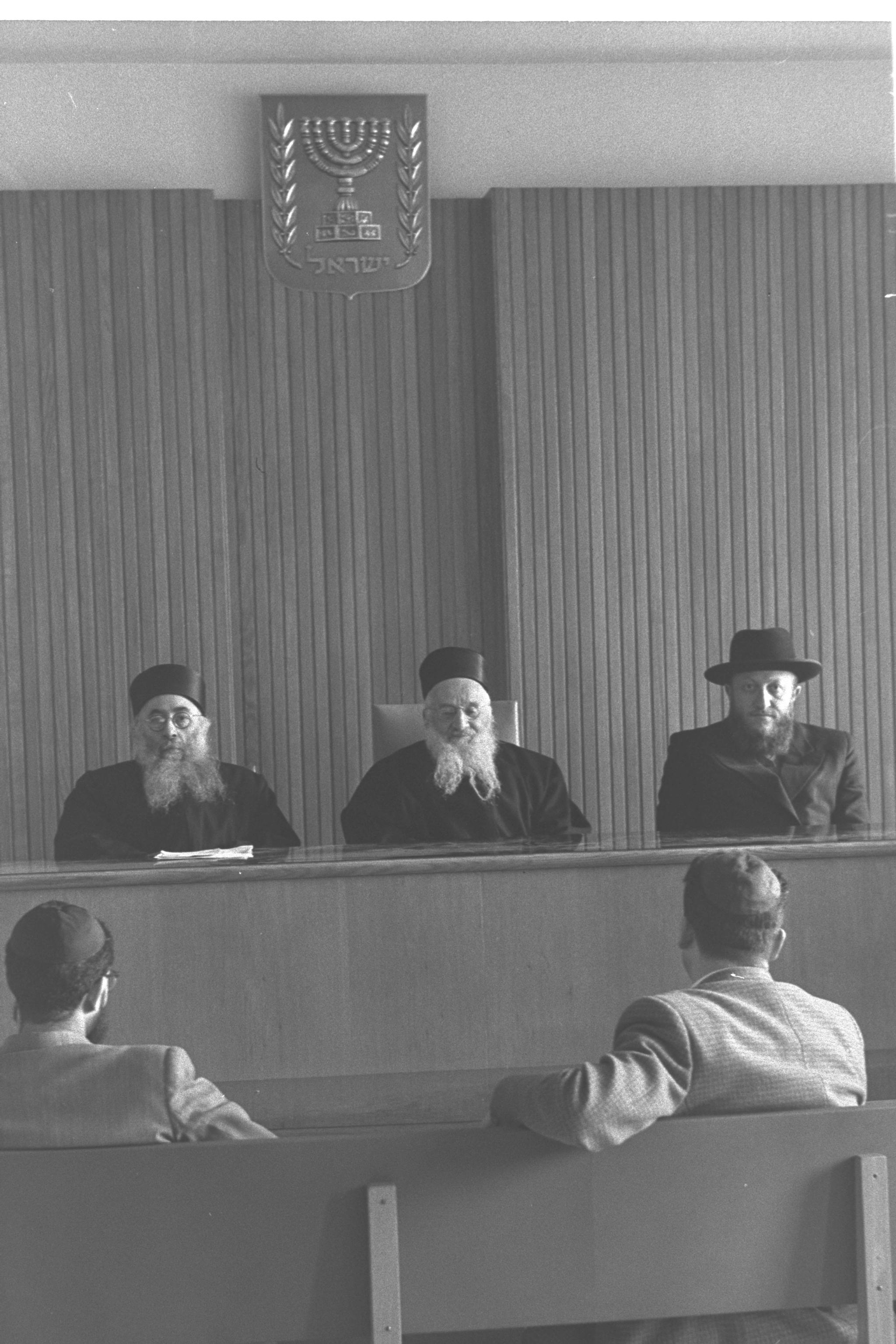 Israel Rabbinate High Court of Appeals, Jerusalem 1959. Left to right: Rabbi Yaakov Ades, Rabbi Ovadia Hedaya, Rabbi Betzalel Zolty